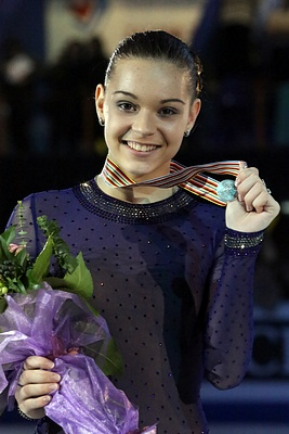 Adelina Sotniкova at the European Championships 2013